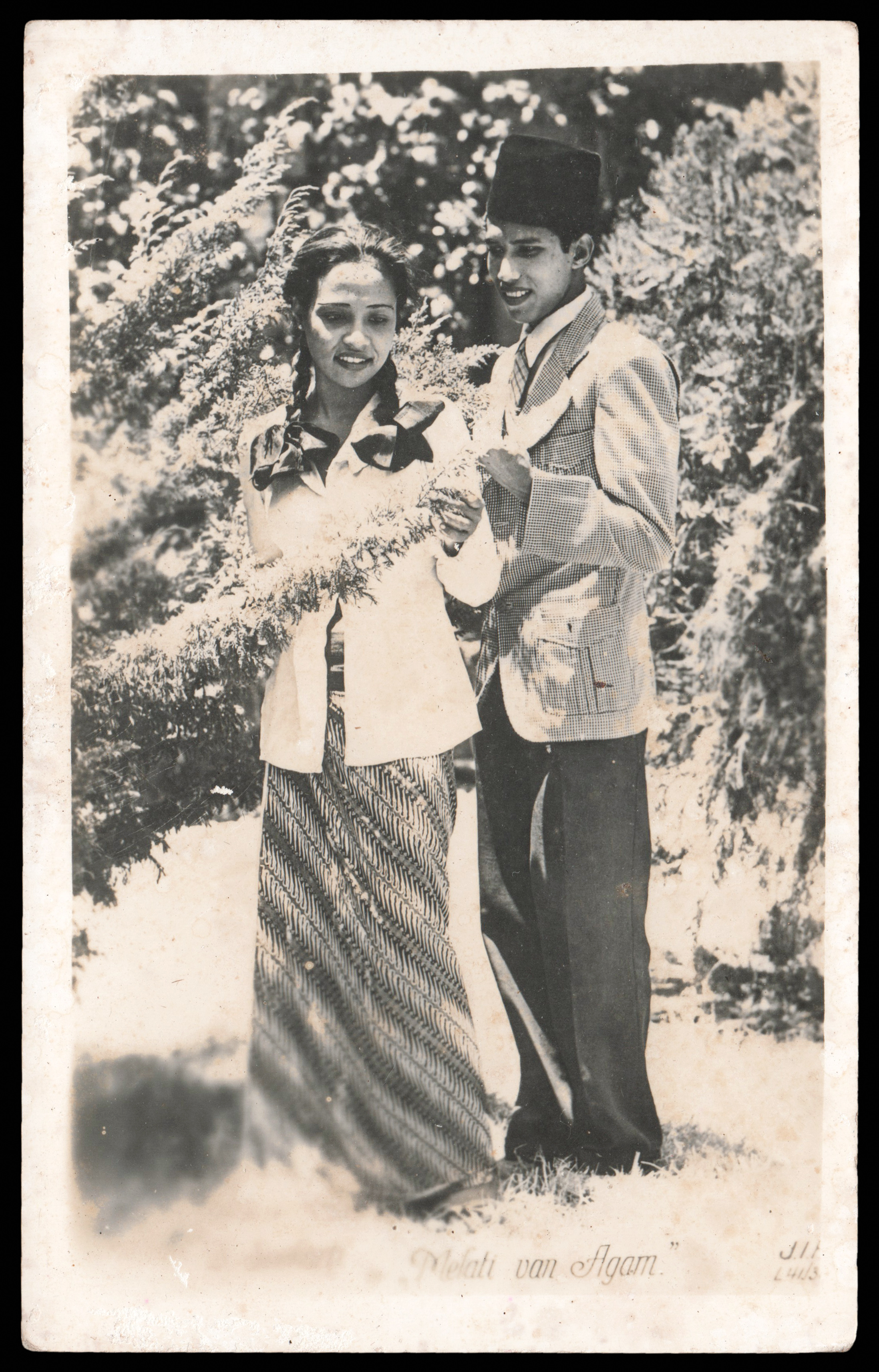 S. Soekarti and AB Rachman in Melati van Agam (1940), postcard